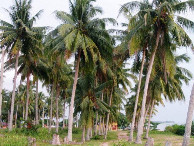 Title:Coconut trees in Pengkalan Balak beach Taken by: Adiput Date taken: 2007